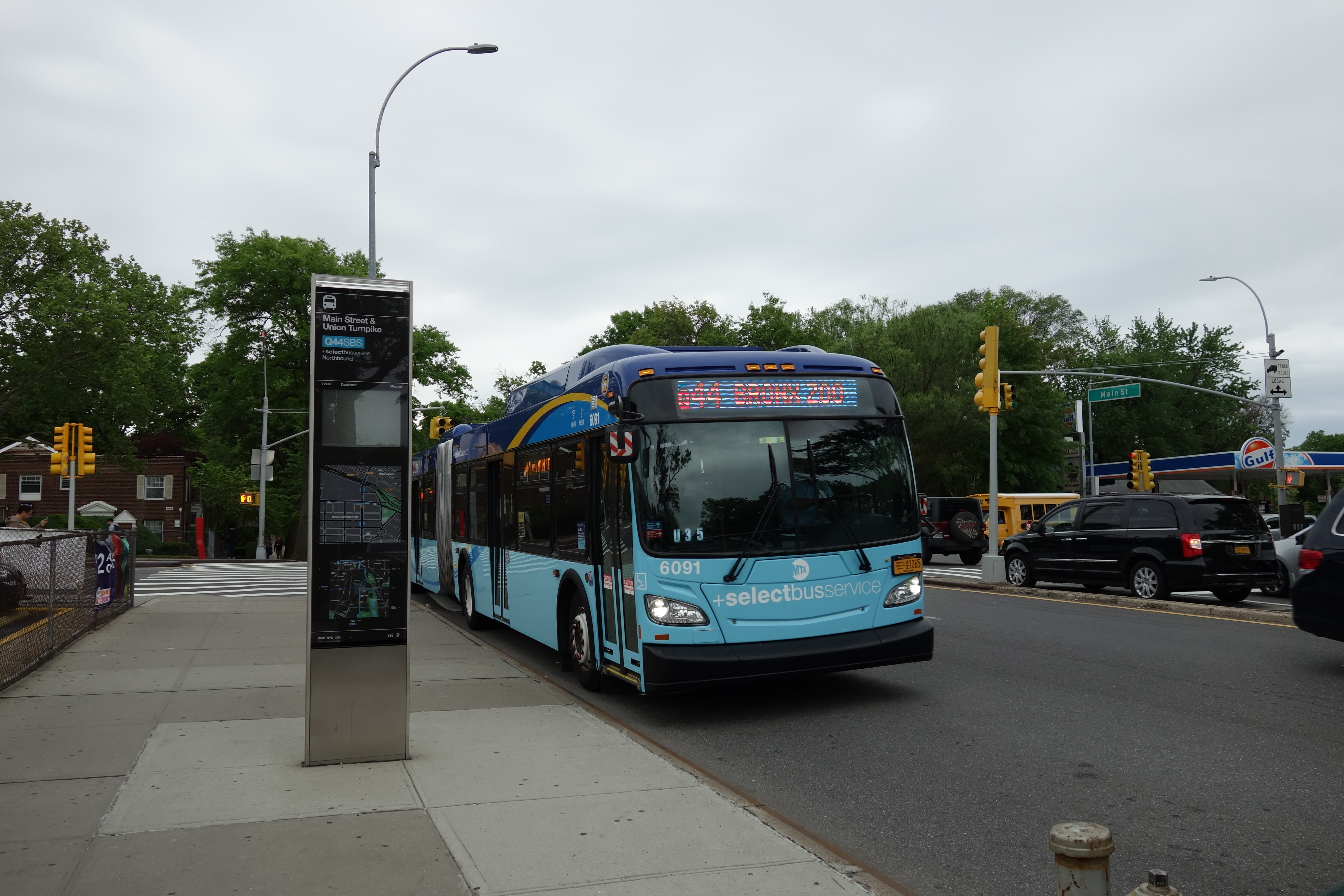 A Bronx Zoo-bound Q44 SBS pulling up to a stop at Main Street and Union Turnpike in Kew Gardens Hills, Queens. To the left is the WalkNYC countdown clock which, per usual, is turned off. Or just doesn't work.